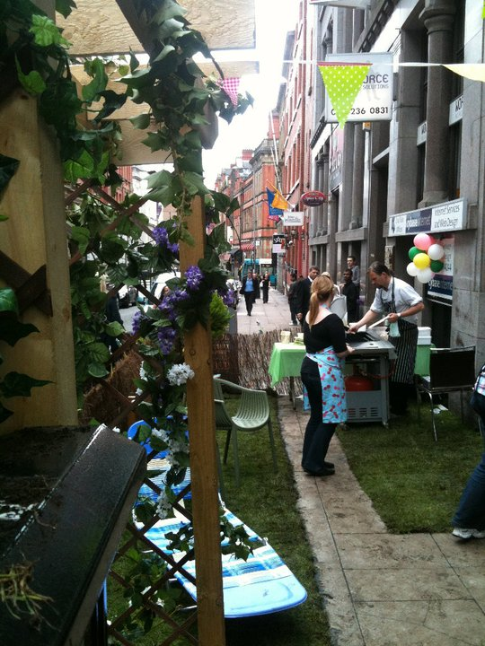 Delifonseca celebrate their 5th birthday with pop-up garden, deck chairs, barbeque, live music, games, food stalls and an alfresco licensed bar on Stanley Street, Liverpool's gay quarter (June 2011).